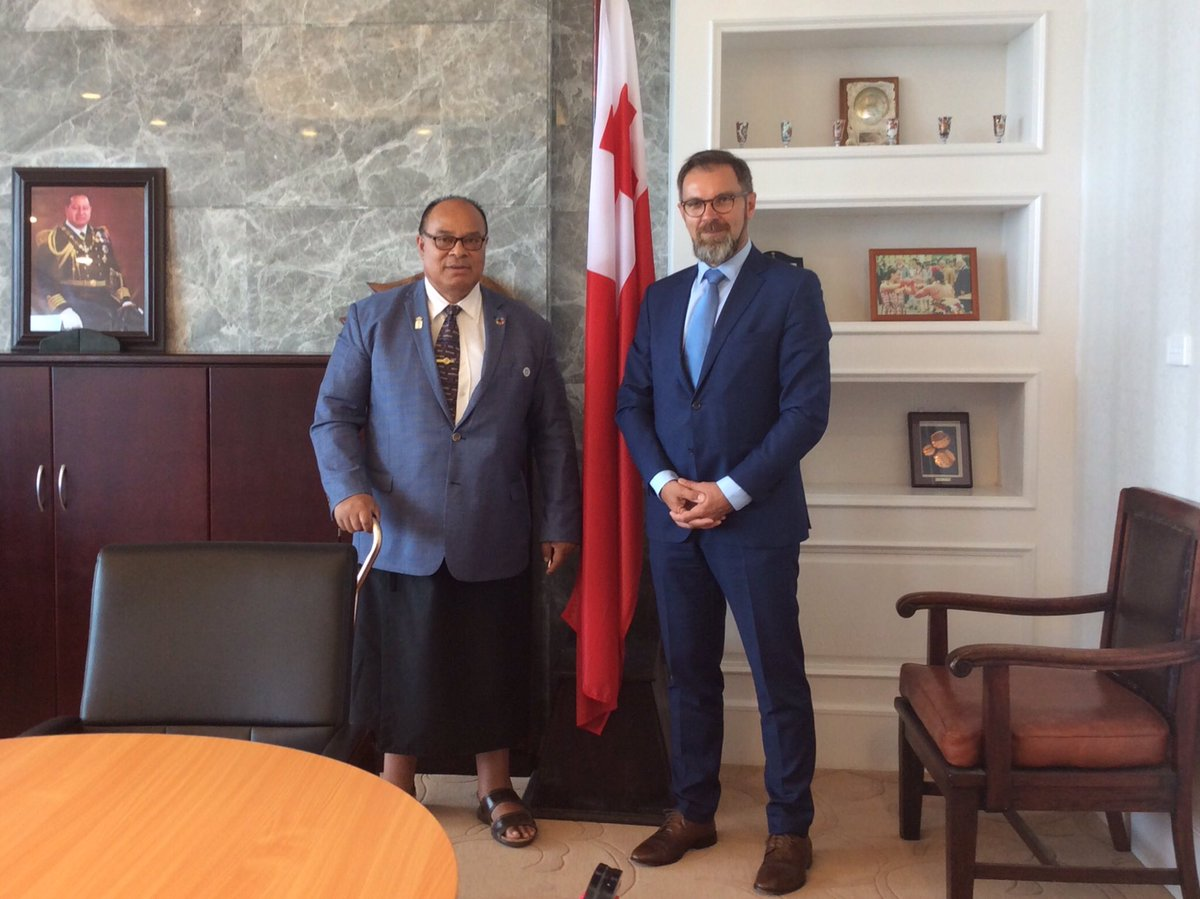 Ambassador of Poland Zbigniew Gniatkowski pays official visit to the prime minister of Tonga Pohiva Tu’i’onetoa